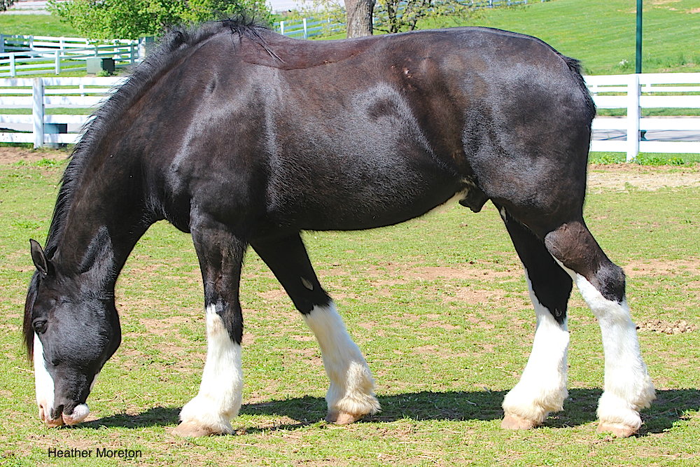 Albion the Shire. Has had his feet shaved due to medical issues. He's all better now. At the Kentucky Horse Park